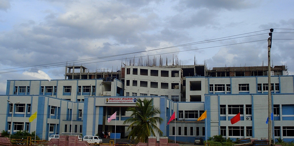 Vinaya Mission Medical College Hospital, Salem